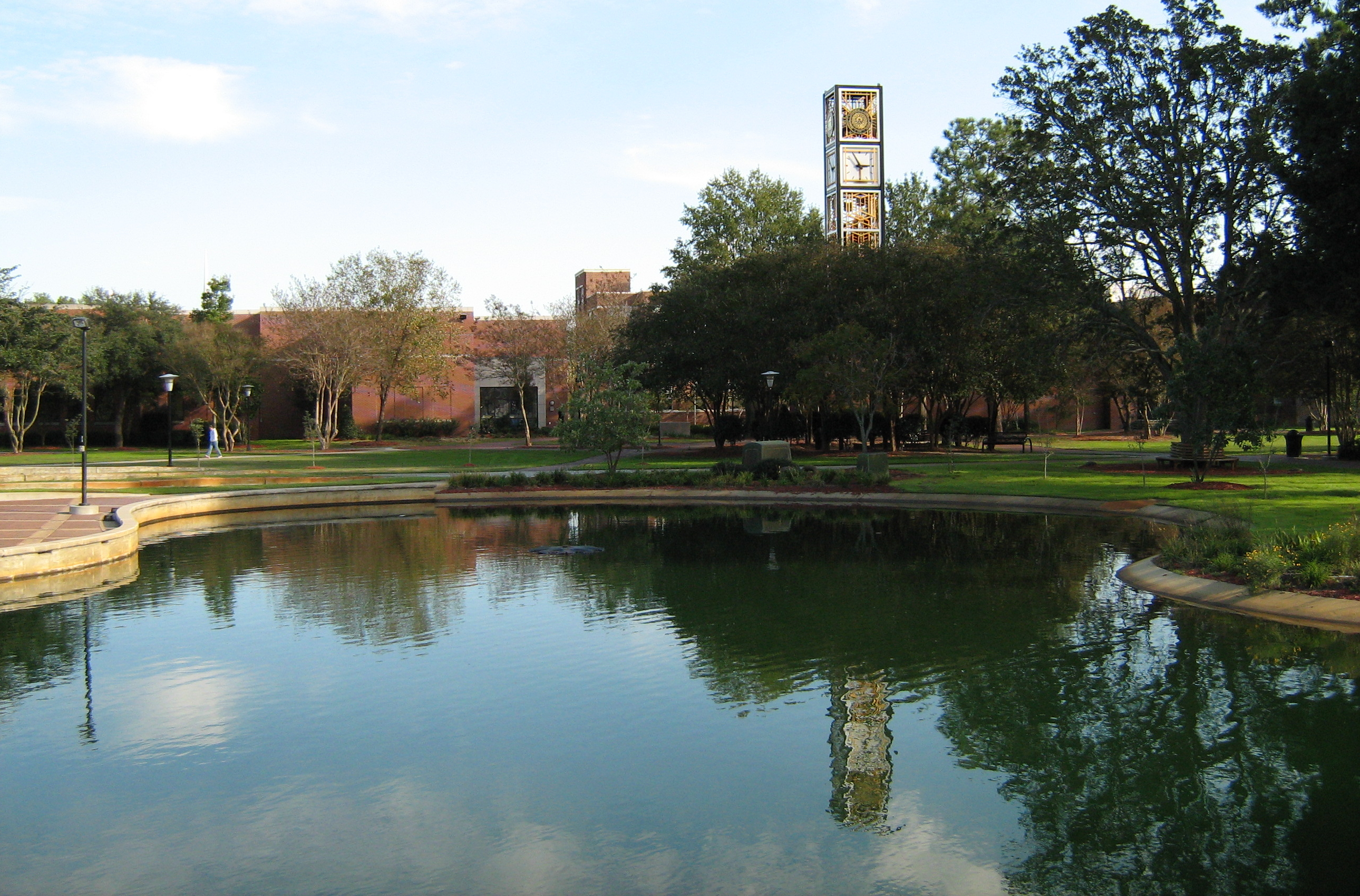 UNCP's Lowry Bell Tower - view from the bridge over the Water Feature